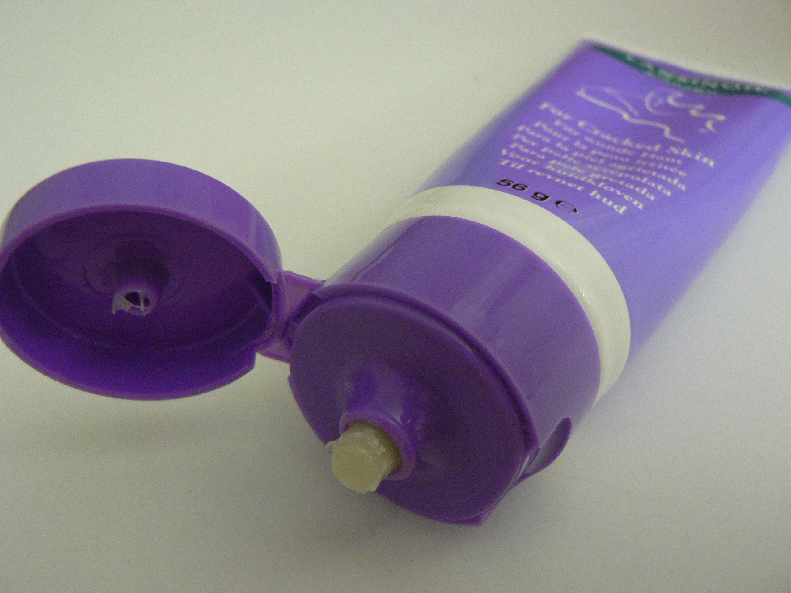 Lansinoh lanolin ointment